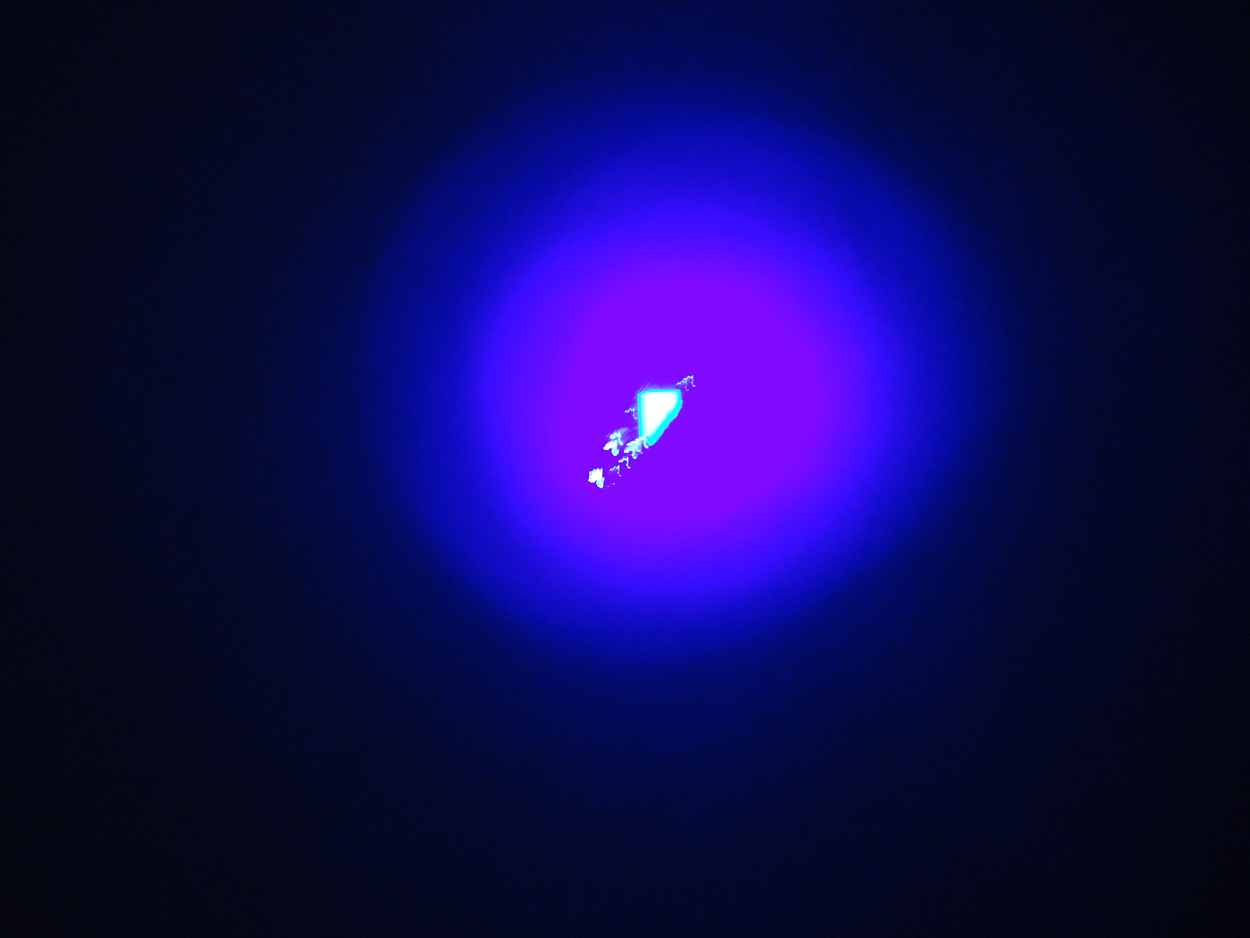 A kind of white paper taped on a white wall under UV-light (200-400nm).